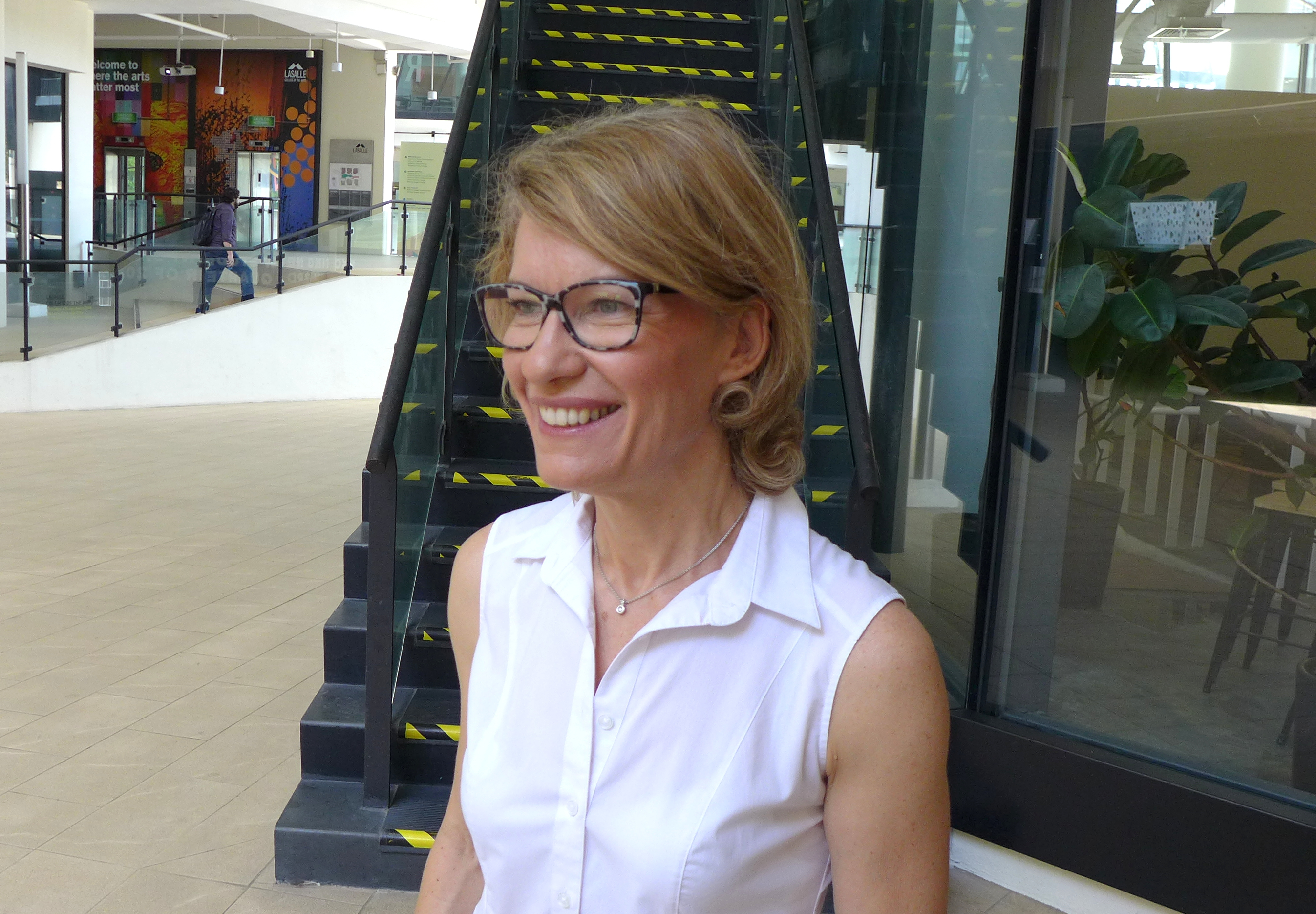 Anne Genetet, candidate for the eleventh constituency for French residents overseas, in Singapore (May 2017)